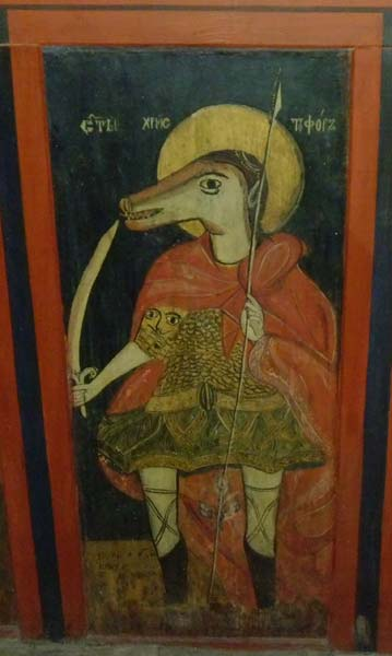 Свети Христофор Песоглавец